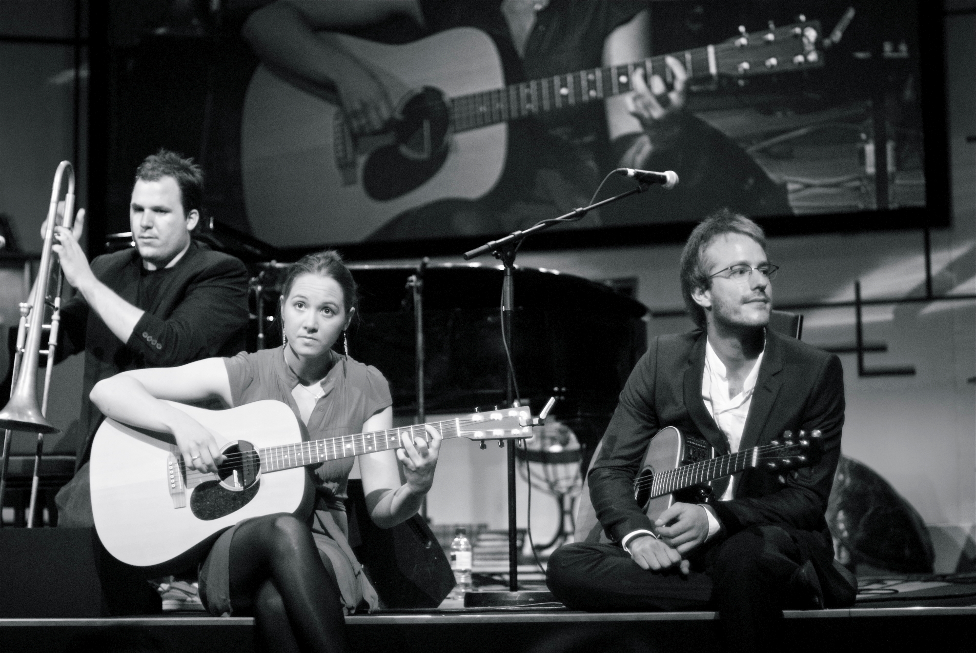 Sophie Hunger playing at the TED Global conference in Oxford.